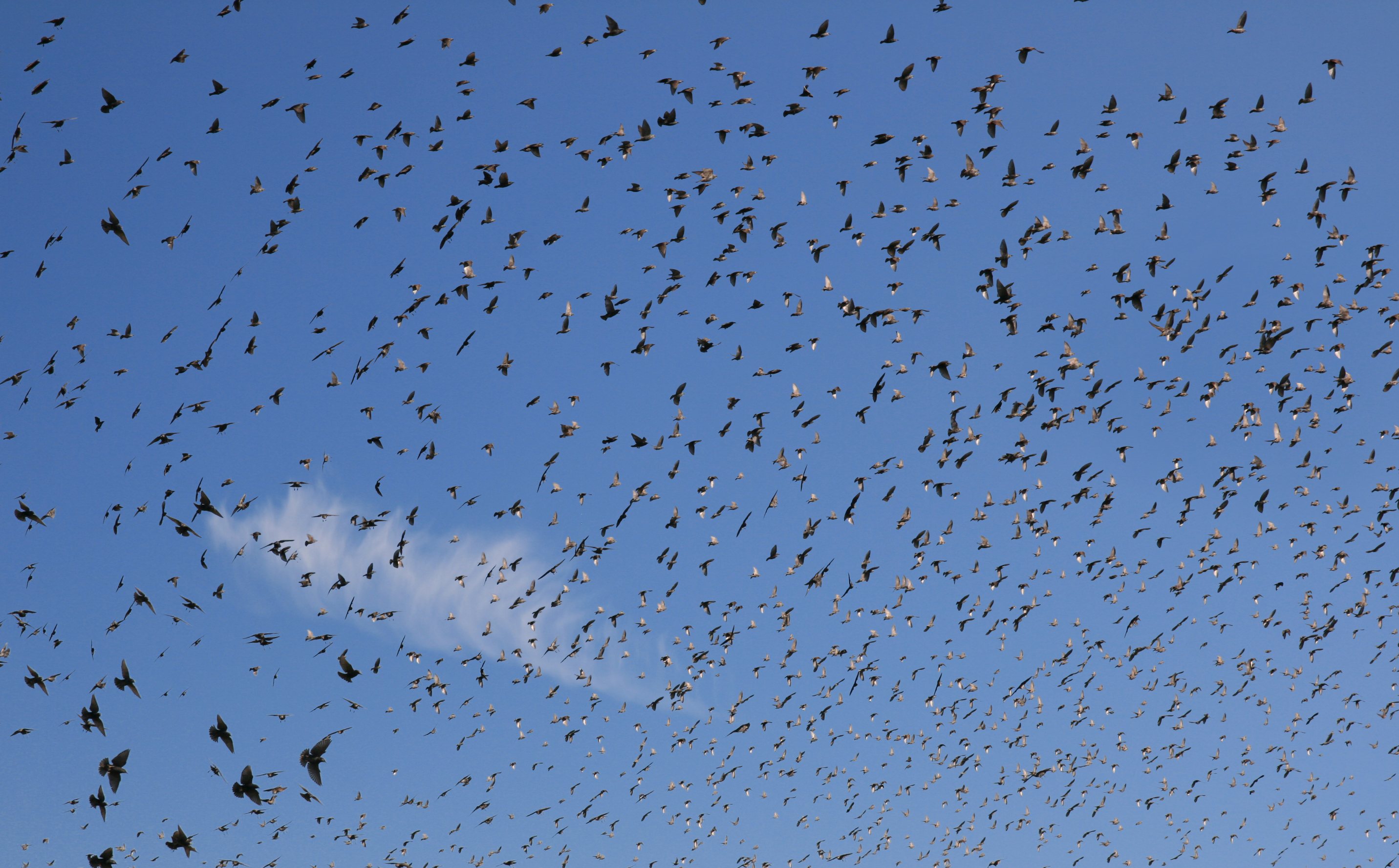 Sturnus vulgaris in Napa Valley